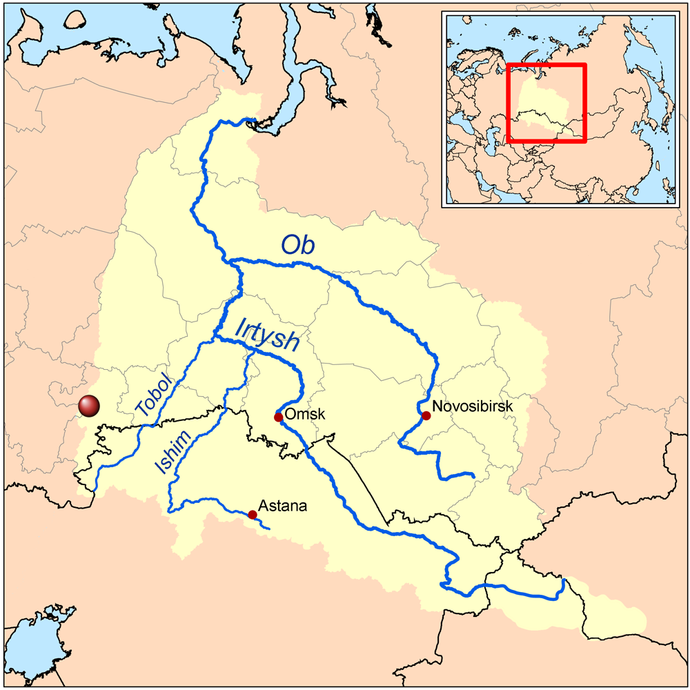 Lake Chebarkul located approximately in the Ob River watershed. Adapted from Ob watershed.png.